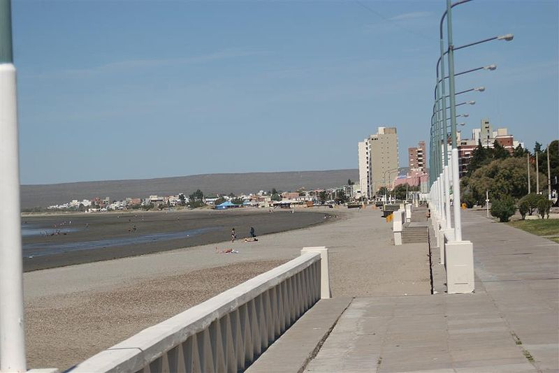 Puert Madryn, Chubut